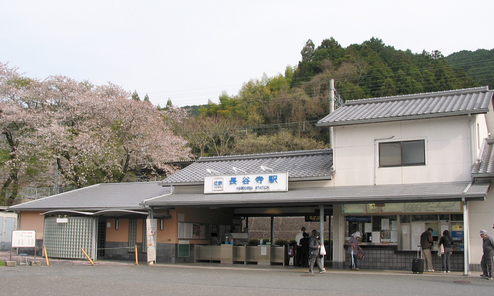 Hasedera Station Kintetsu Ōsaka Line, Kintetsu Corporation. I took this image at Hase Sakurai Nara, Japan.